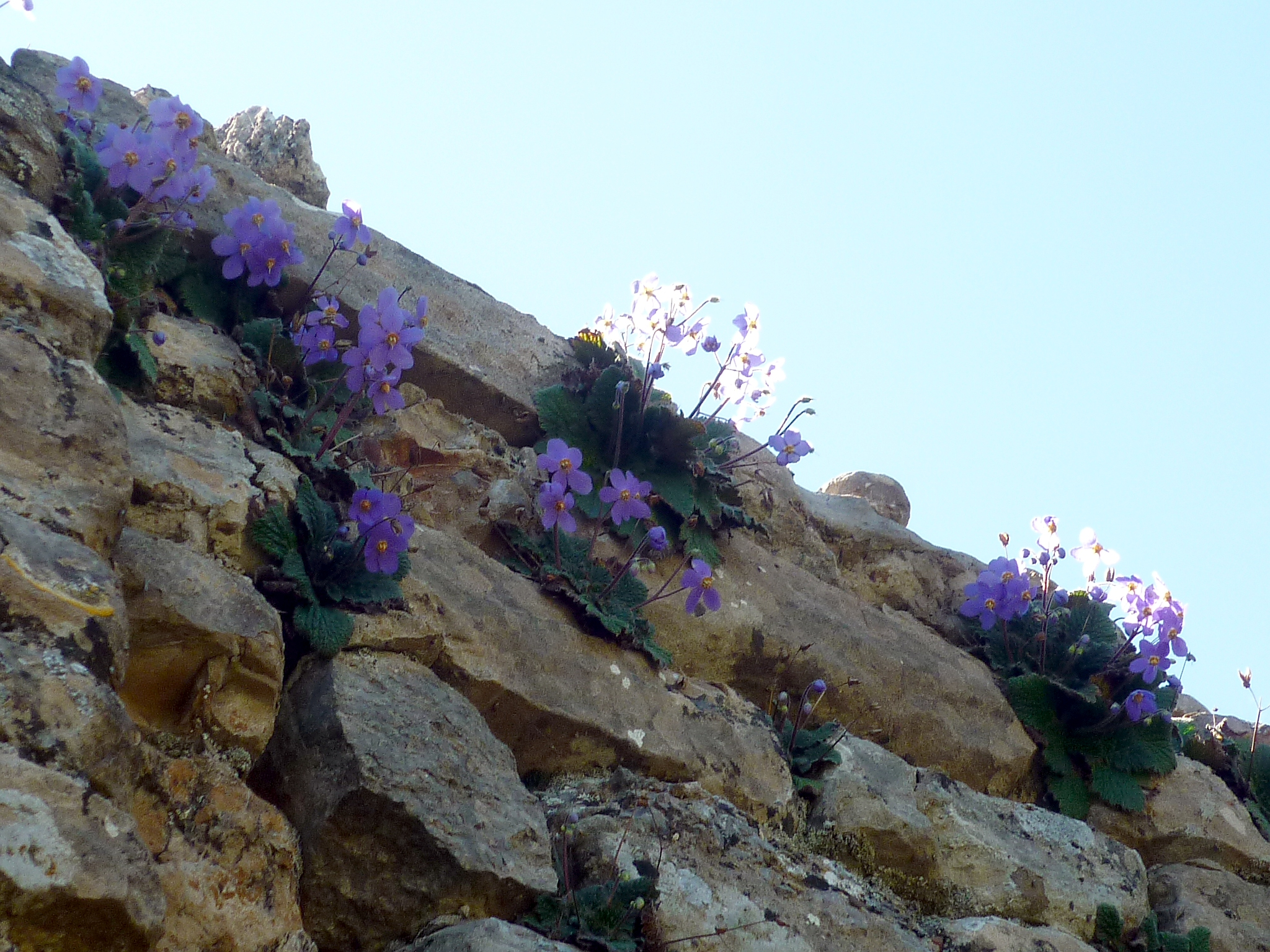 Ramonda myconi. In la Baronia de Rialb (Noguera-Catalunya). To 880 m. altitude